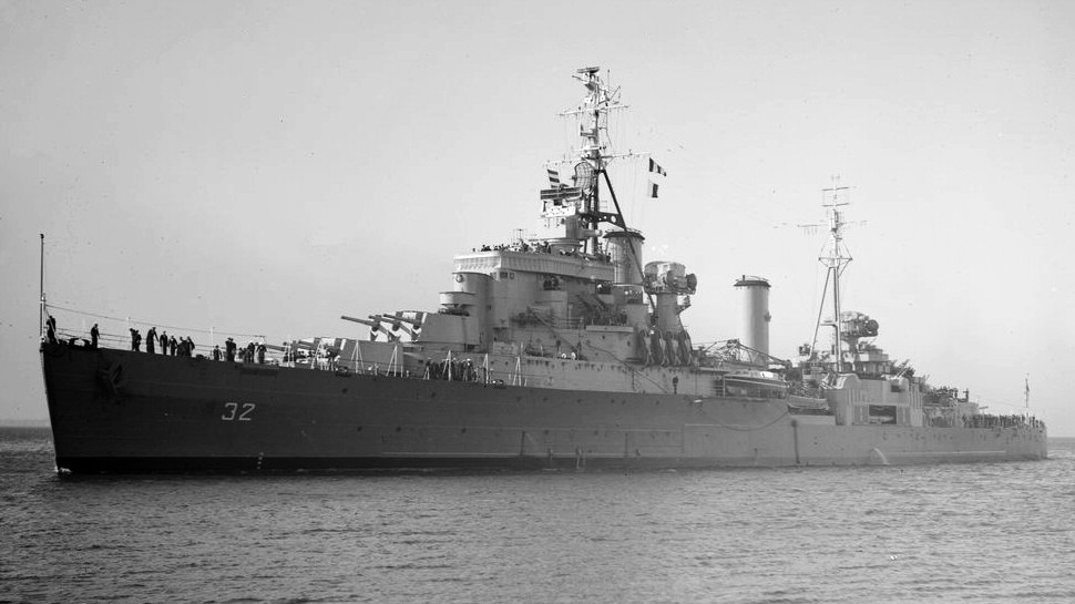 HMCS Ontario. Several war-era radars are seen; at the top of the rear mast is a Type 281 air warning radar, on the foremast at the very top is the cheese-style antenna of the Type 293 for low-angle air warning, at the bottom of the mast is the large double-cheese of the Type 27 gunnery radar, and just above it is the parabolic reflector of a Type 277Q long-range surface-search radar for spotting ships and submarines.